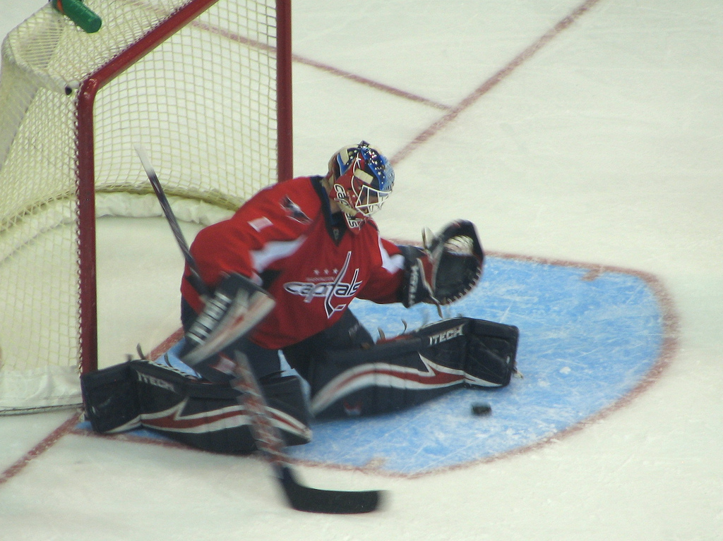 Brad Johnson goaltender of Washington Capitals.